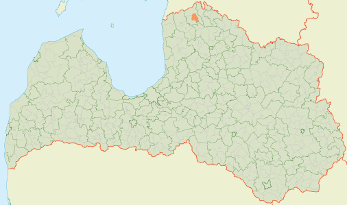 Location of Mazsalaca Parish in Latvia